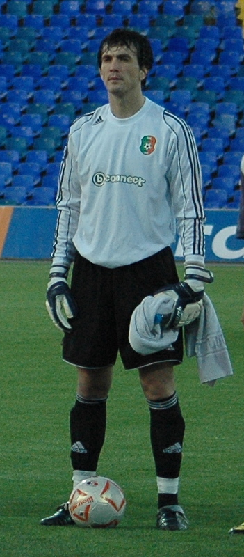 Uroš_Golubović Litex Lovech players